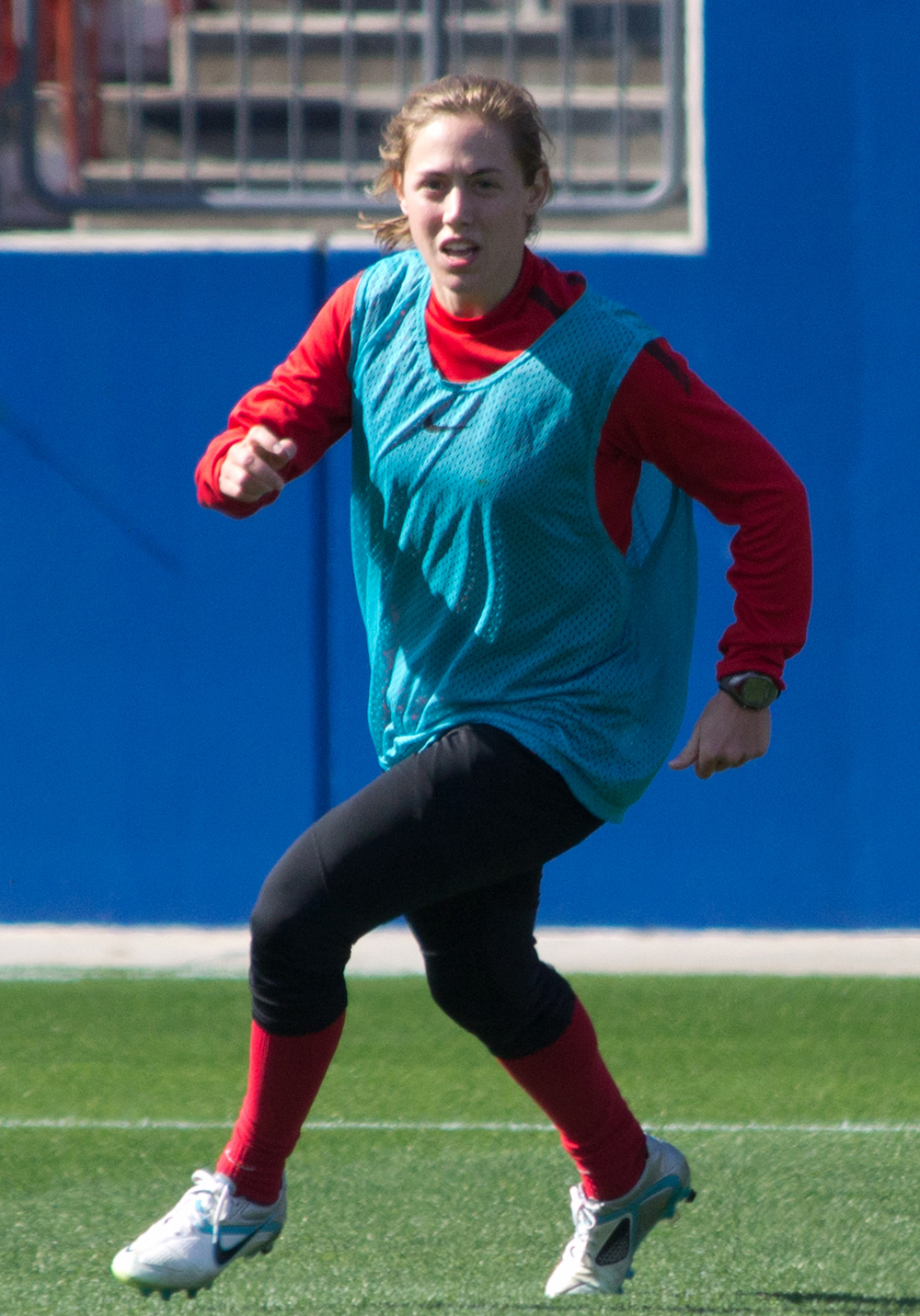 Meghan Klingenberg of the United States Women's National Soccer Team in Frisco, Texas